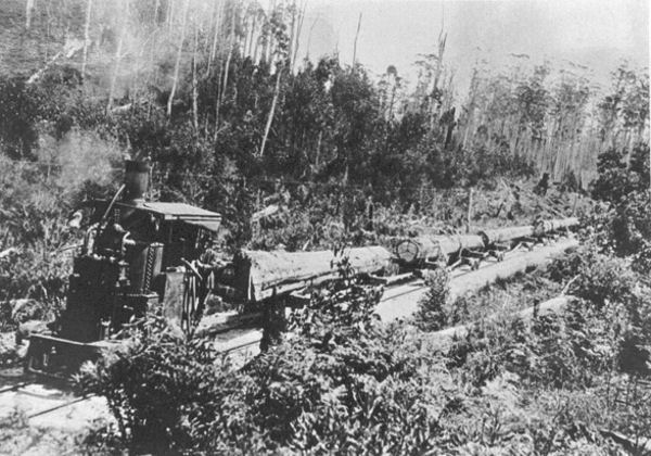 The "Coffee Pot" vertical boiler engine on the Marrawah tramway in the bush. It was used by the Lee family for milling in Circular Head, Tasmania. It was consigned to J S Lee on August 9 1883 and was used on several lines. It went on the Pelican Point Jetty, and on the lines to Lees Jetty, Broadmeadows, Togari, and Trowutta via Christmas Hills and probably in the vicinty of the Cuba Mill and occasionally on the line to Redpa. It was last surveyed in 1941 and afterwards was converted to a combustion engine and eventually abandoned on a short length of track at Leesville. The derilict remains were purchased in 1986 and taken to Victoria.